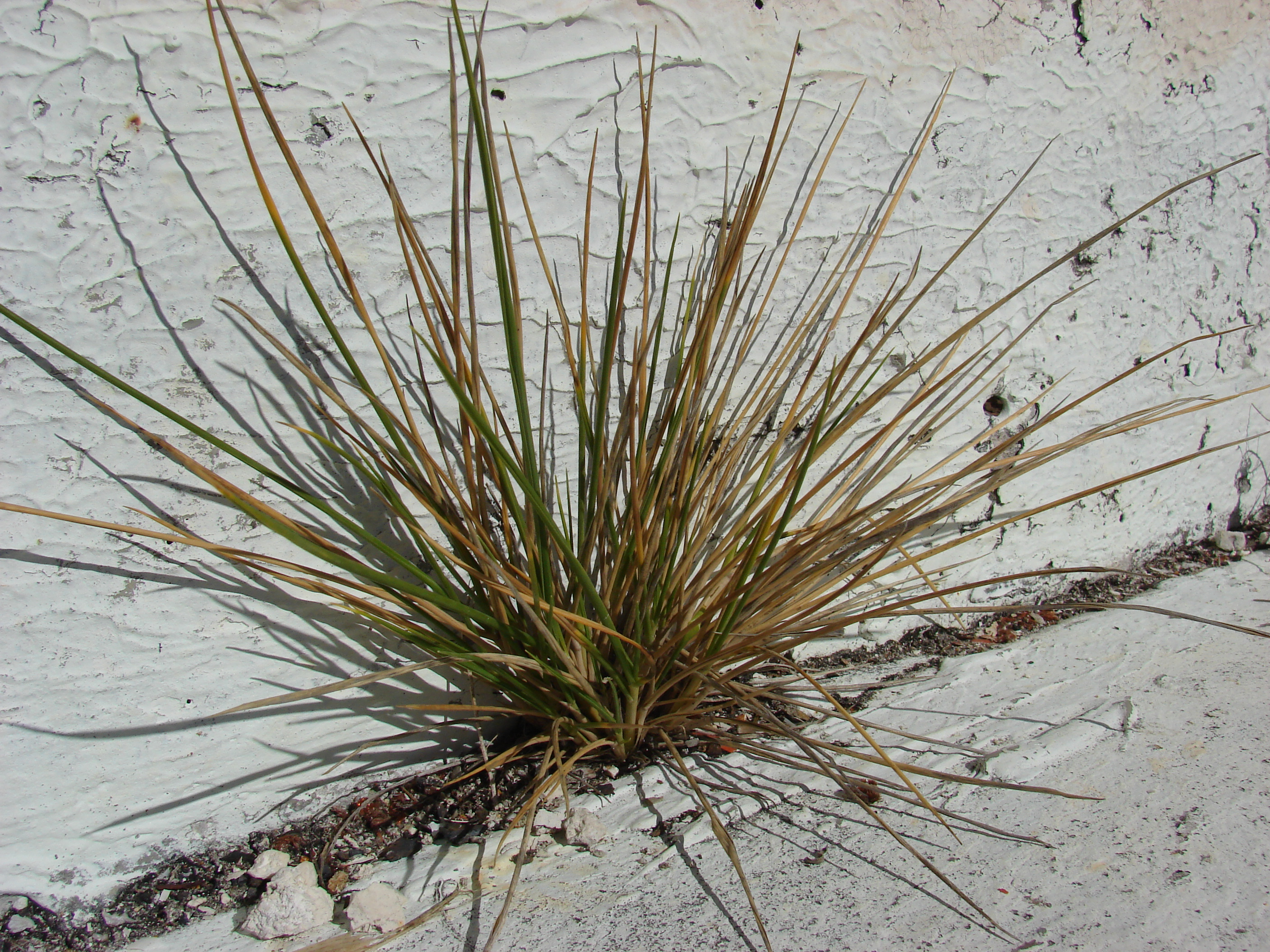 Lepturus repens (habit). Location: Midway Atoll, Finger piers Sand Island